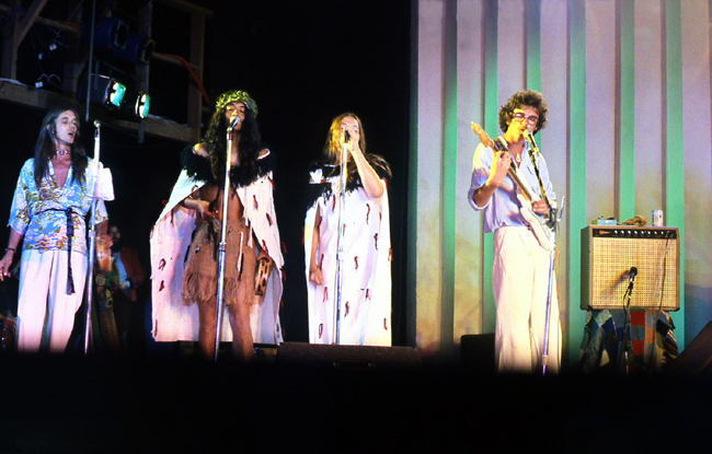 Mahana's John Tucker, Bobby Simmons, Dale Whitcombe and John Cossar at Nambassa 1978. Photograph taken by official Nambassa Photographer and uploaded by User:Mombas 23:38, 4 May 2007 (UTC) Terms of Use: 1) All users of this image are required to attribute this work to "Nambassa Trust and Peter Terry" and the url: " " is to accompany all use. 2) Attribution. You must attribute the work in the manner specified by the author or licensor. 3) For any reuse or distribution, you must make clear to others the license terms of this work. Statement by Nambassa Trust and Peter Terry